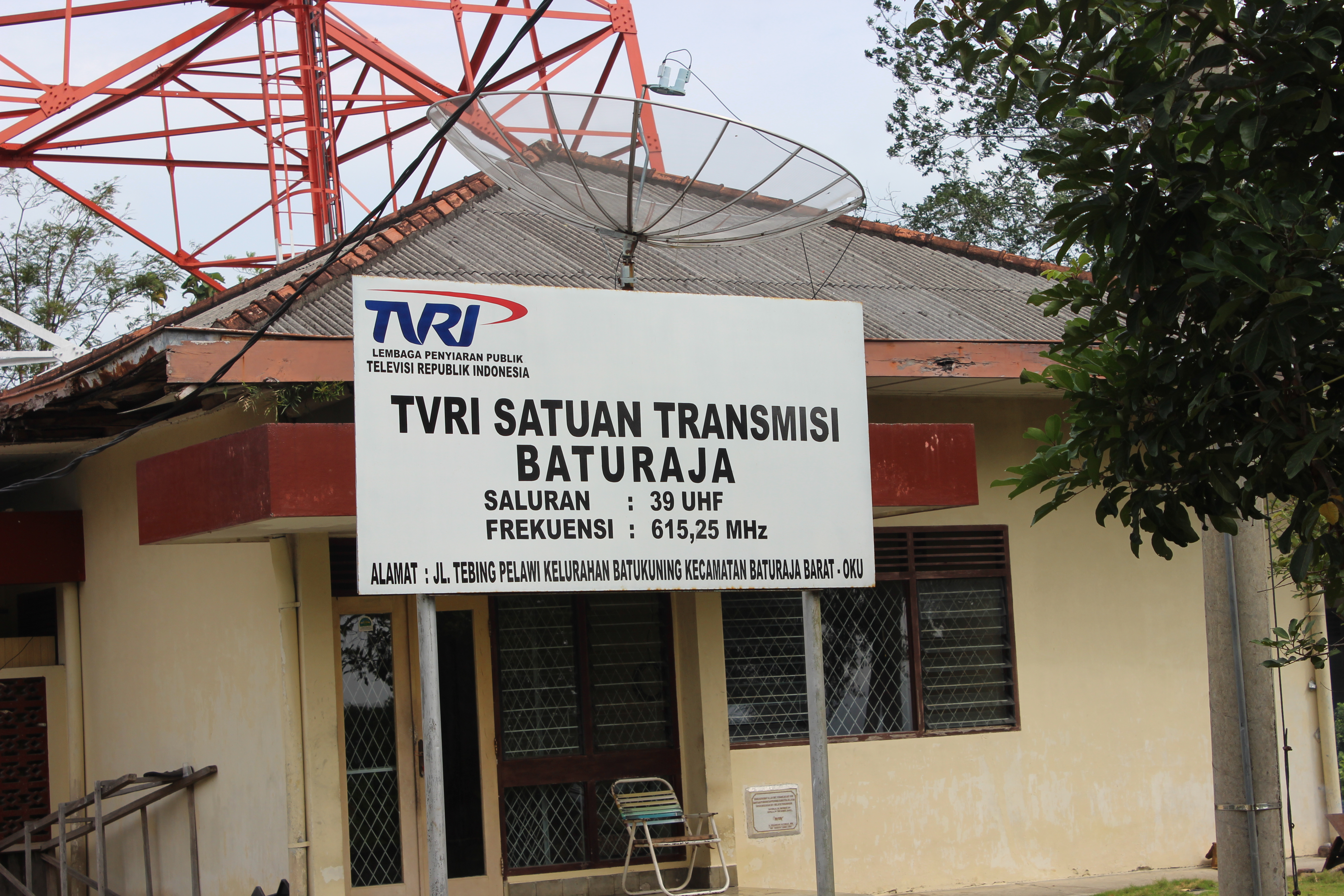 TVRI, Indonesian national broadcasting corporation transmission station in Baturaja, Ogan Komering Ilir, South Sumatera.